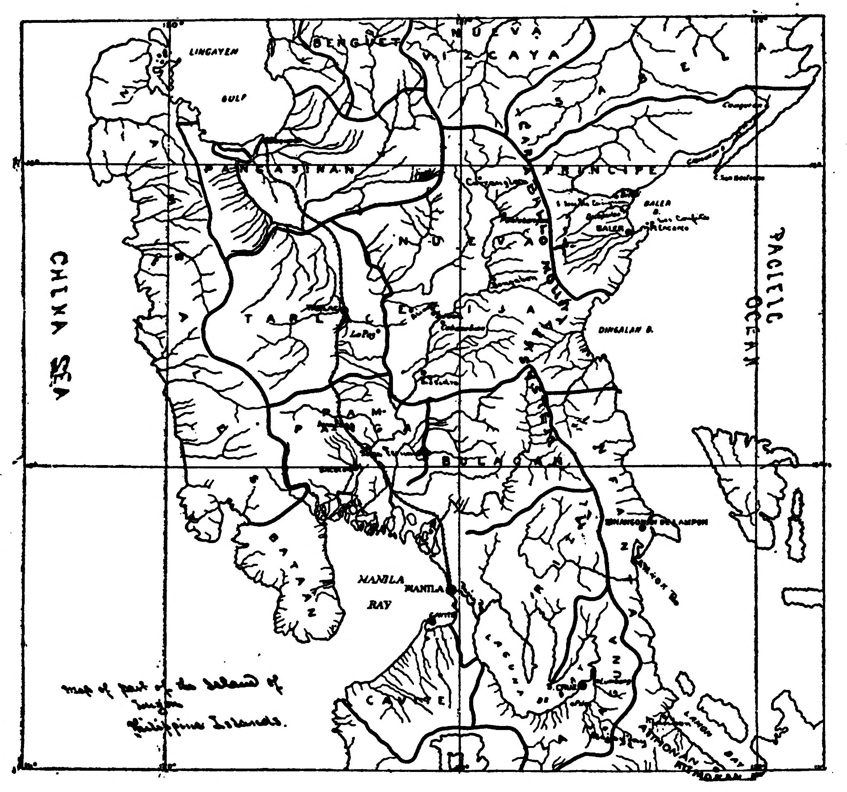 Map of Central Luzón from Under the red and gold: being notes and recollections of the siege of Baler (1909), by Saturnino Martín Cerezo (translation into English by Frank Loring Dodds)